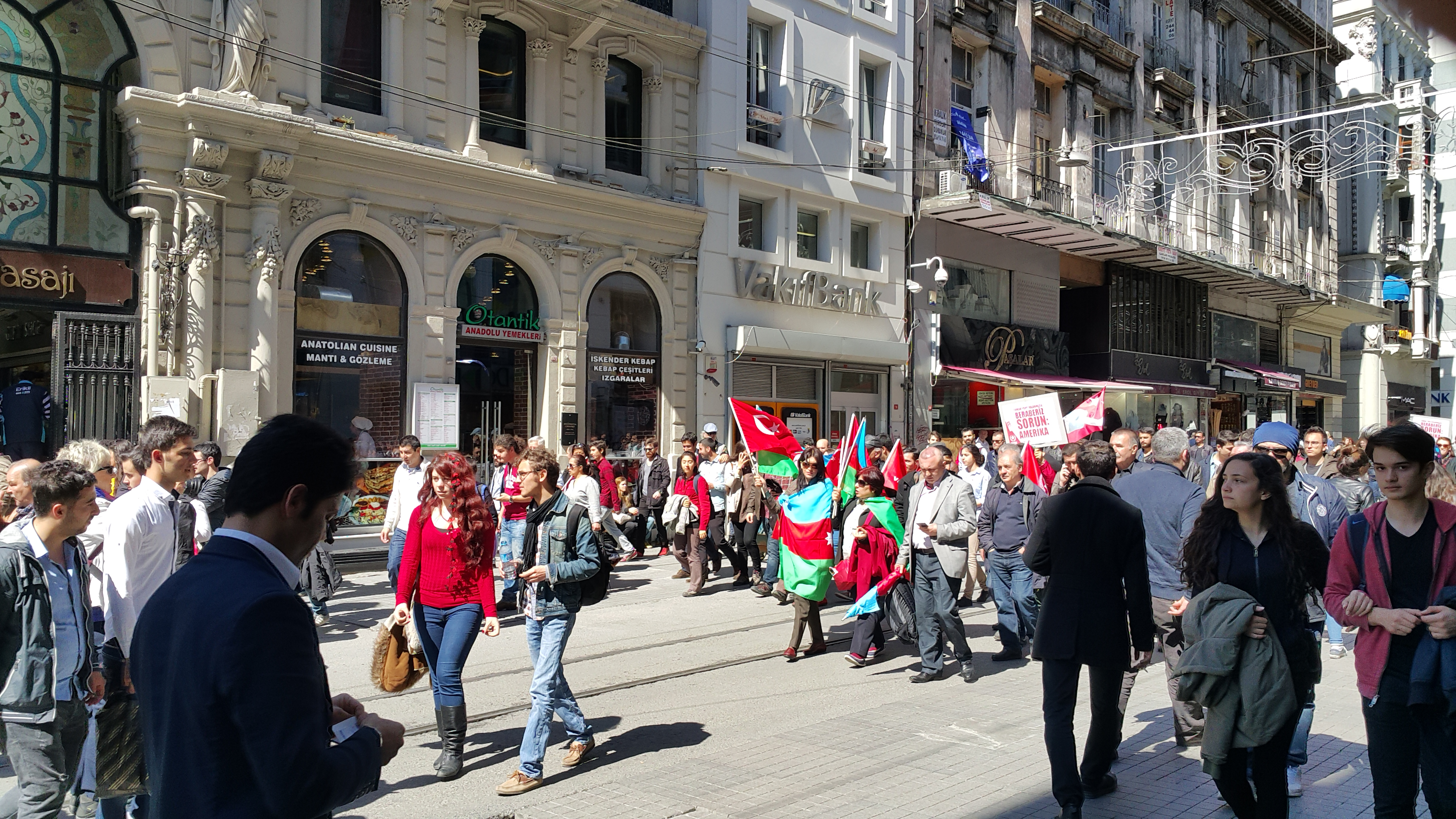 A protest organized by the Turks and Azerbaijanis against Armenian claims in İstiklal Avenue, Istanbul, Turkey.